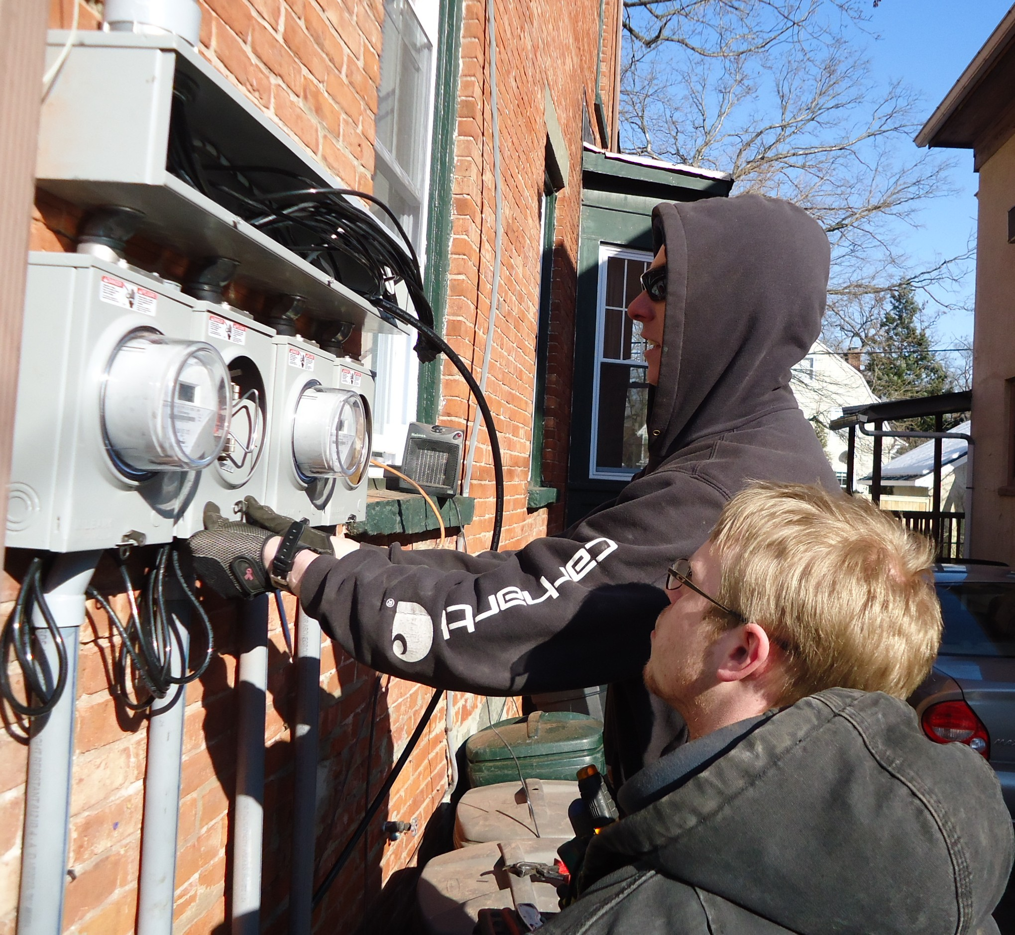 Electricians upgrading service on a multi-family house in New Jersey.